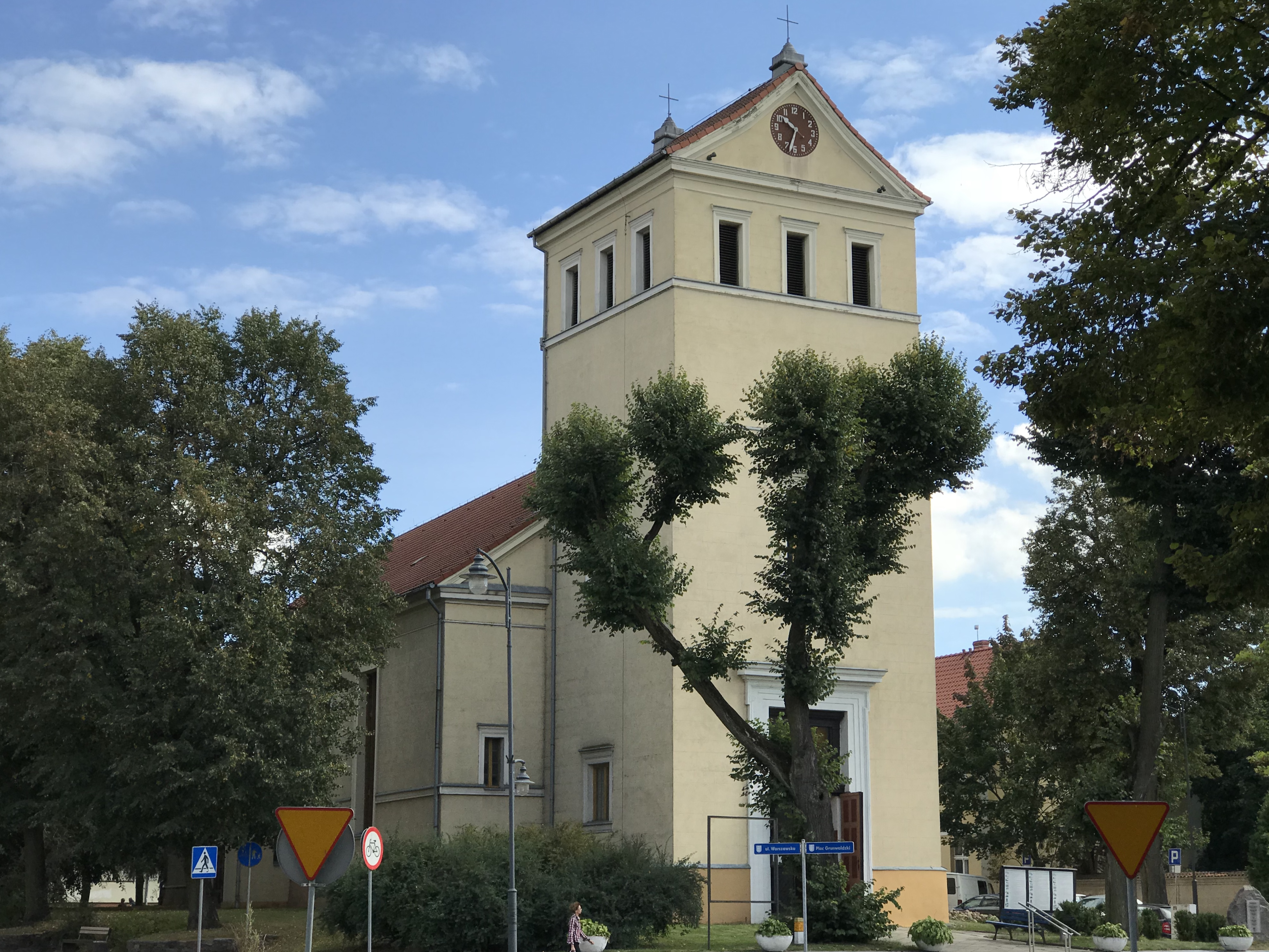 Evangelical church in Giżycko